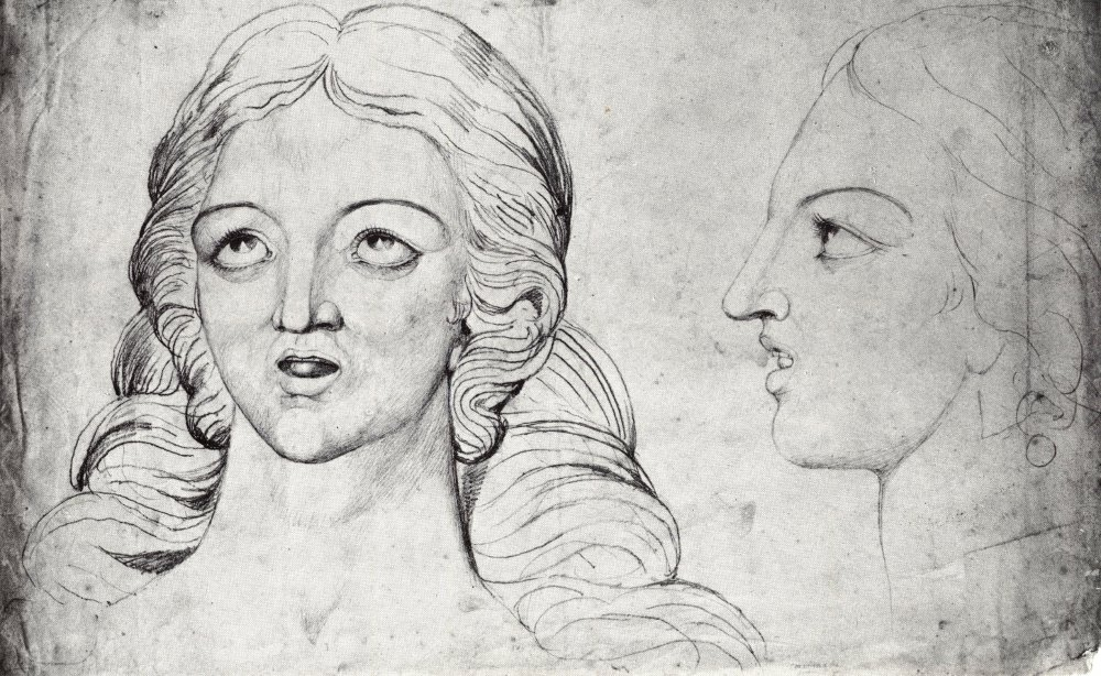 William Blake, Visionary Head of Corinna The Theban c 1820 260 x 415 mm-sm